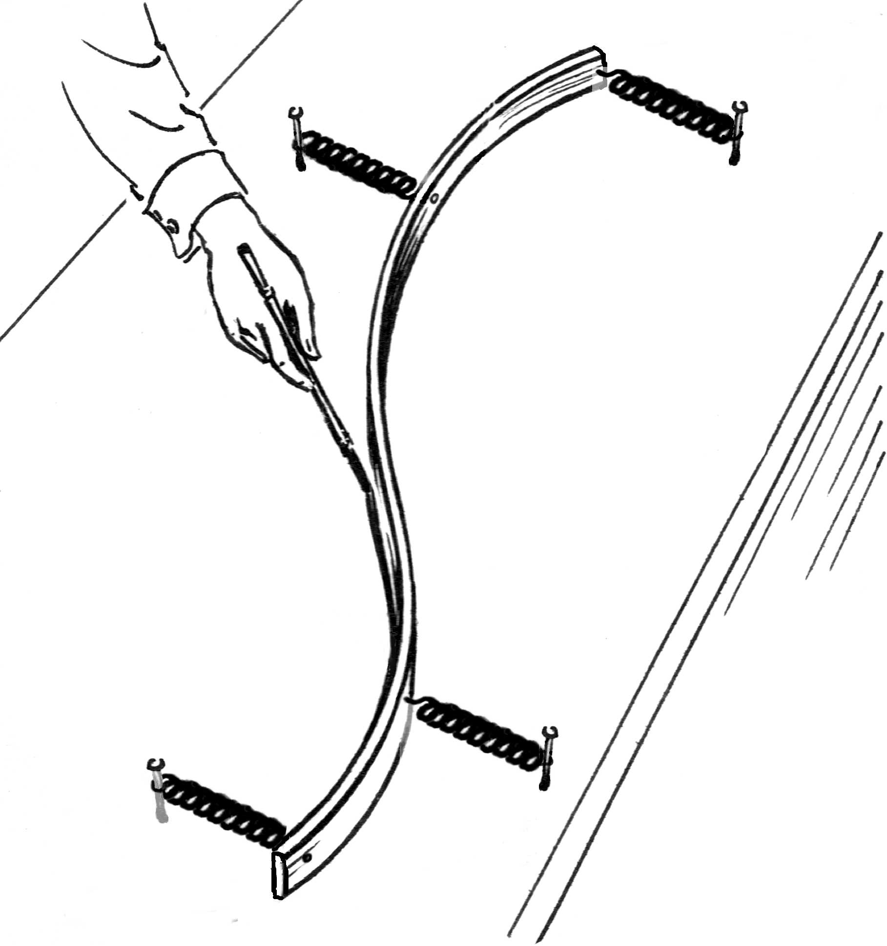 Principle of spline smoothing: springs bind the knots to the strip that describes the smoothed curve; this is the one that minimizes the total energy of deformation.